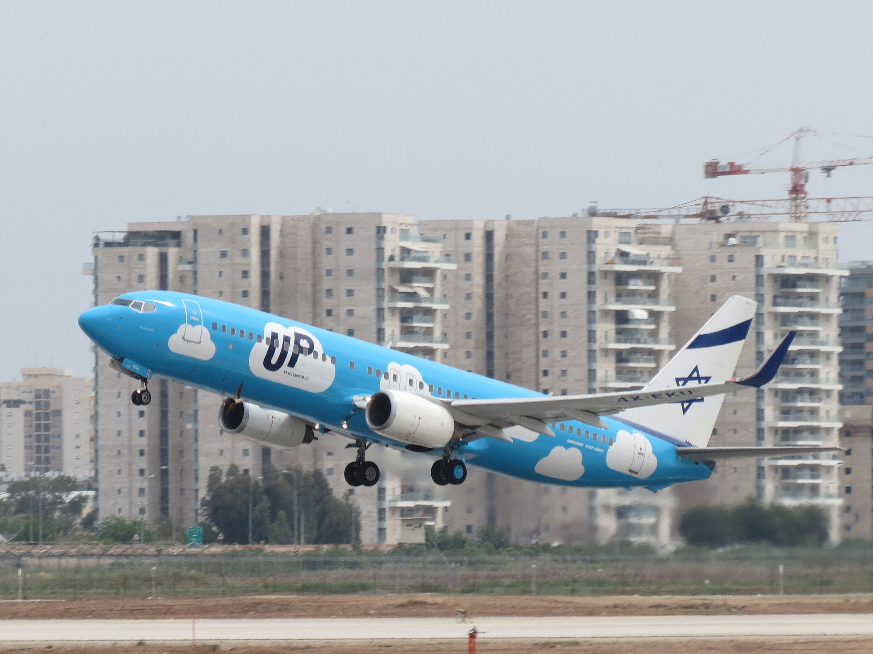 The new UP logo on 4X-EKU on takeoff from Ben Gurion International.